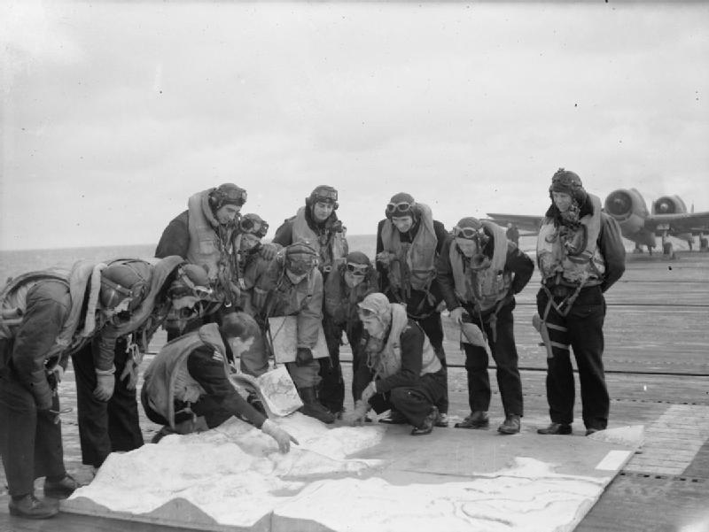 The Royal Navy during the Second World War Grumman Hellcat pilots of the escort carrier HMS EMPEROR studying a model of the German battleship TIRPITZ and its hide-out in Alten Fjord on the flight deck just before the Operation Tungsten attack, which left the TIRPITZ blazing, began. Two of their aircraft can be seen in the distance.